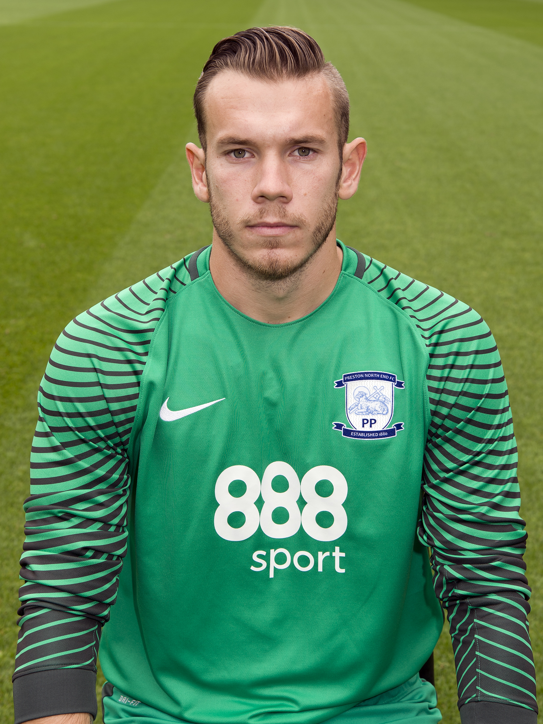 Chris Maxwell in Preston North End F.C. keeper kit, 2016